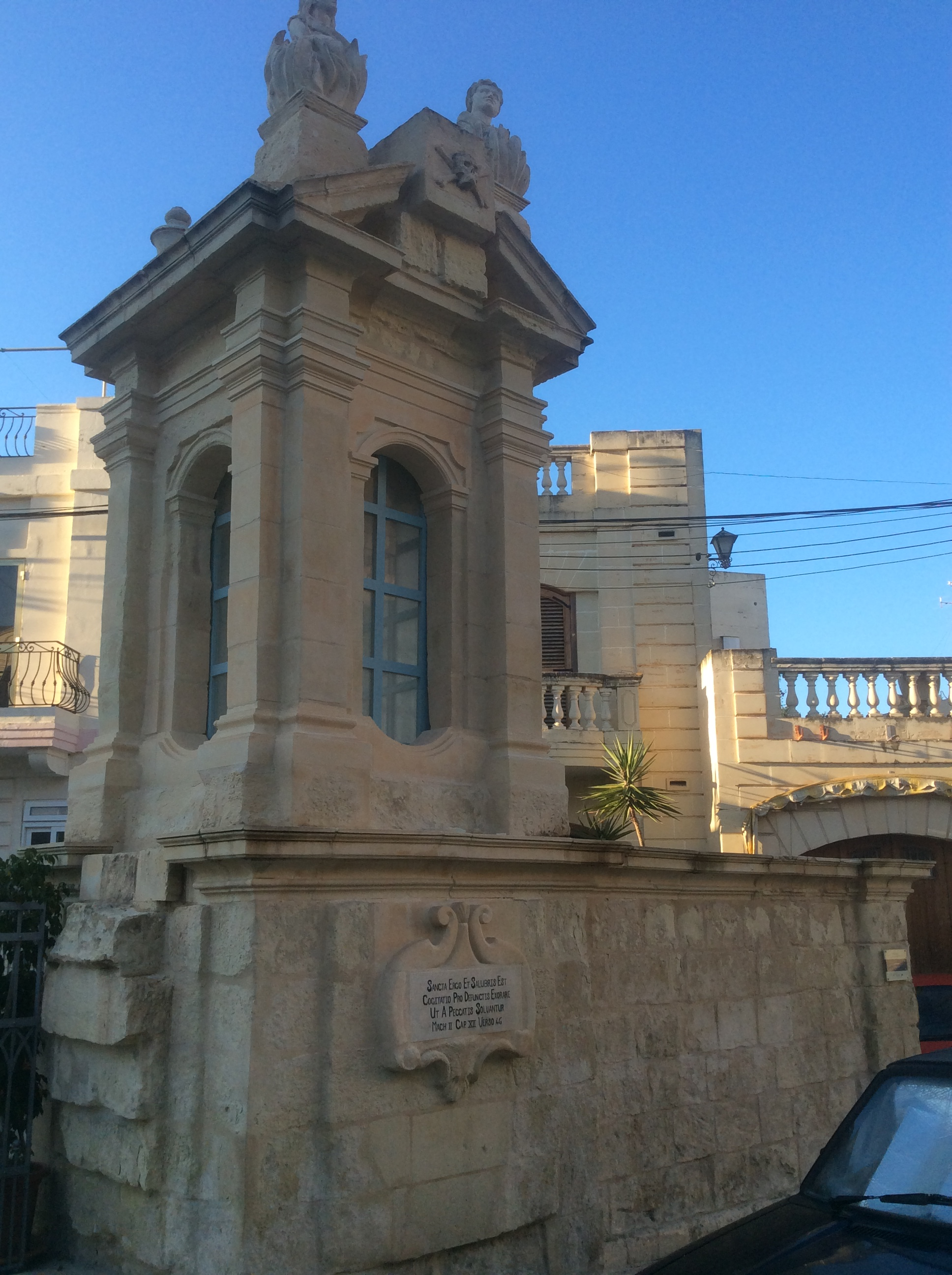 Niche of All Souls - Nicca Tal-Infetti, Found in Birkirkara Malta near St. Mary Church (old church)